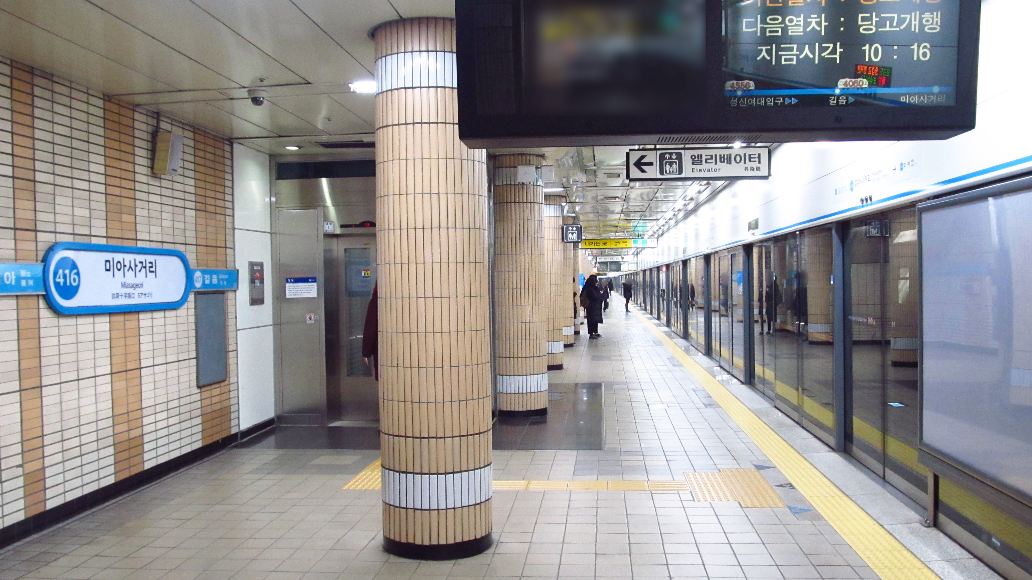 The platform at Miasageori Station on Seoul Subway Line 4 in Gangbuk-gu, Seoul, Republic of Korea(South Korea)